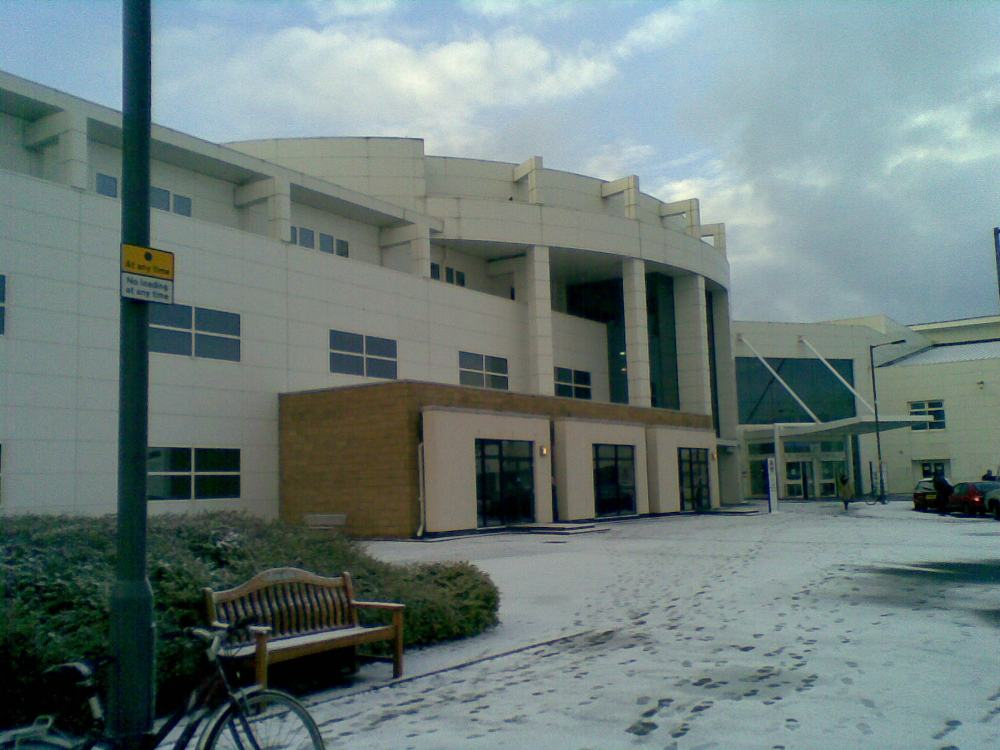 Chancellor's Building, University of Edinburgh Medical School in Winter.